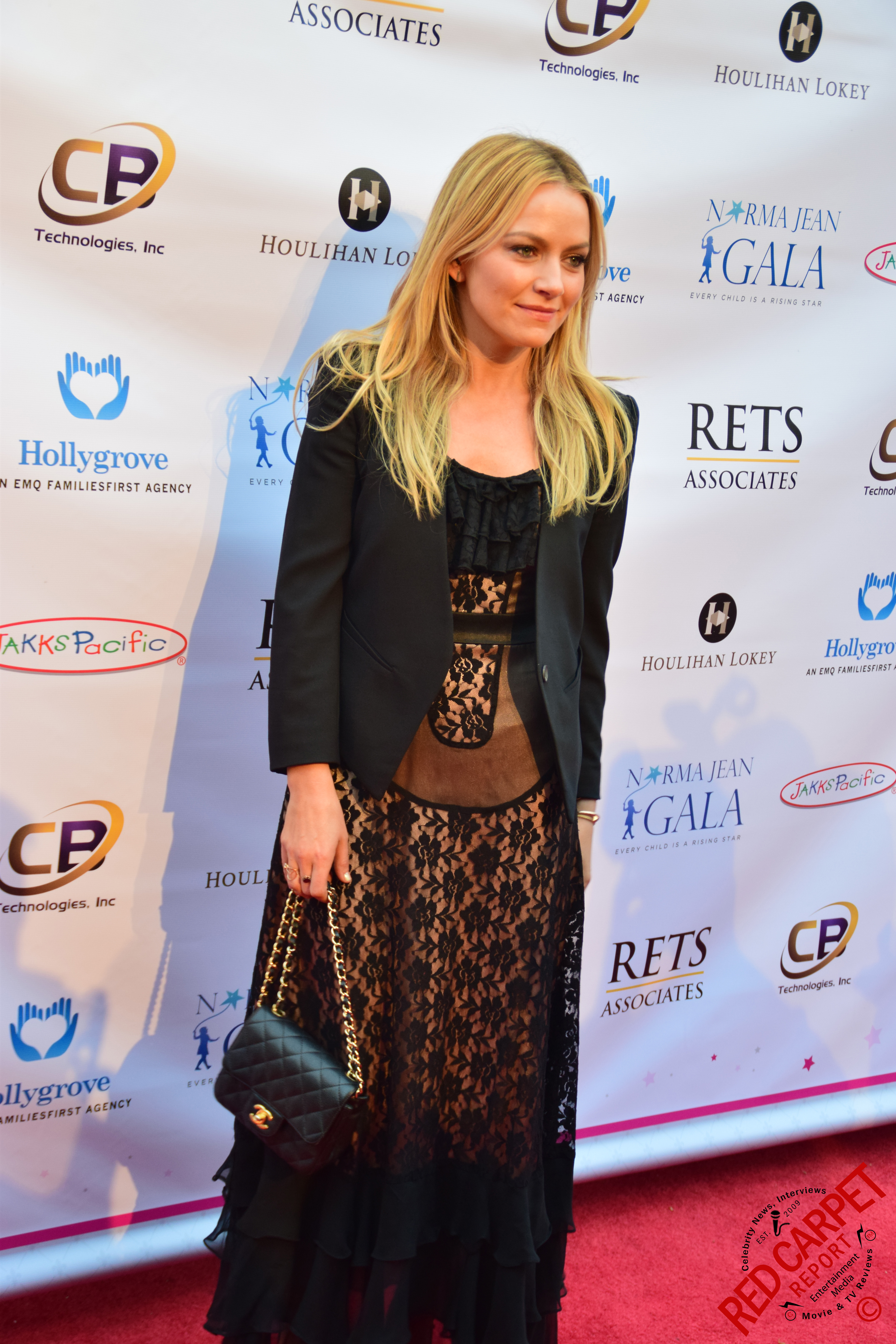 Actress Becki Newton at the 4th Annual Norma Jean Gala in March 2015